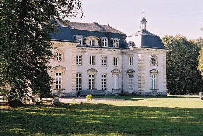 North view of the Château du Buisson de May, made by the Royal Architect Jacques Denis Antoine from 1781 to 1783